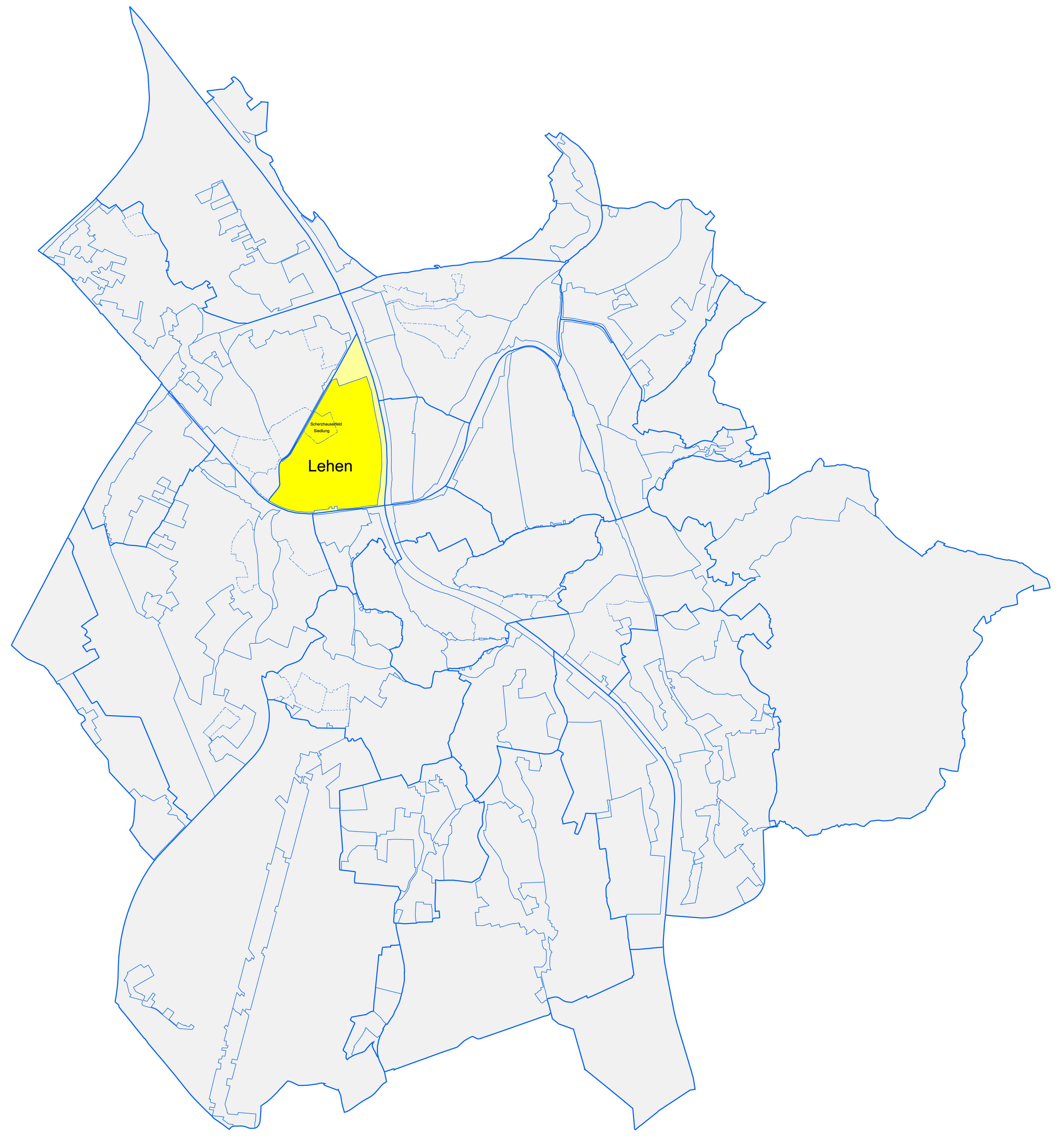 A quarter of the town of Salzburg: Lehen